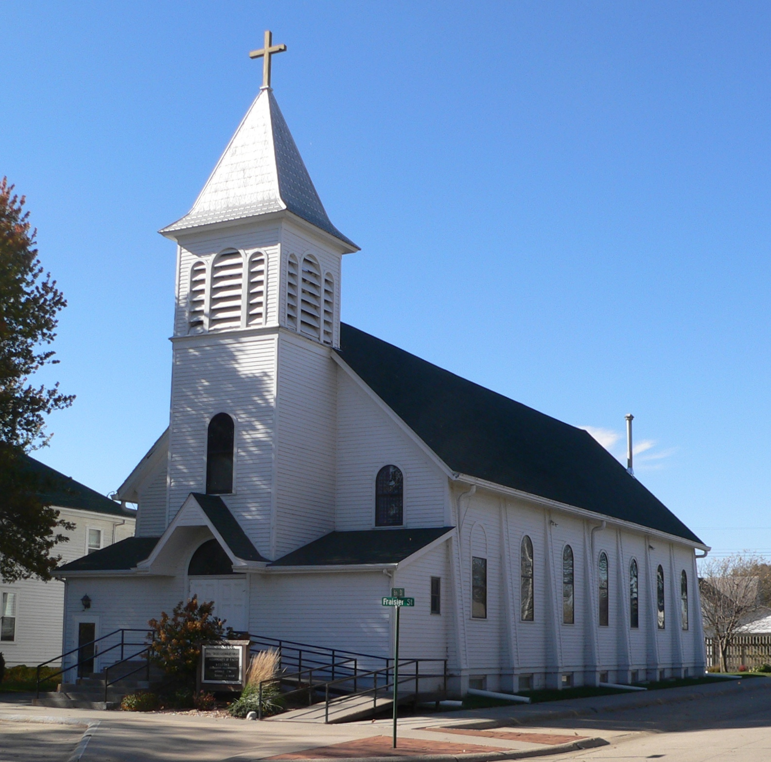 Holy Cross Catholic Church, located at southwest corner of 6th and Frazier Streets in Beemer, Nebraska; seen from the northeast.